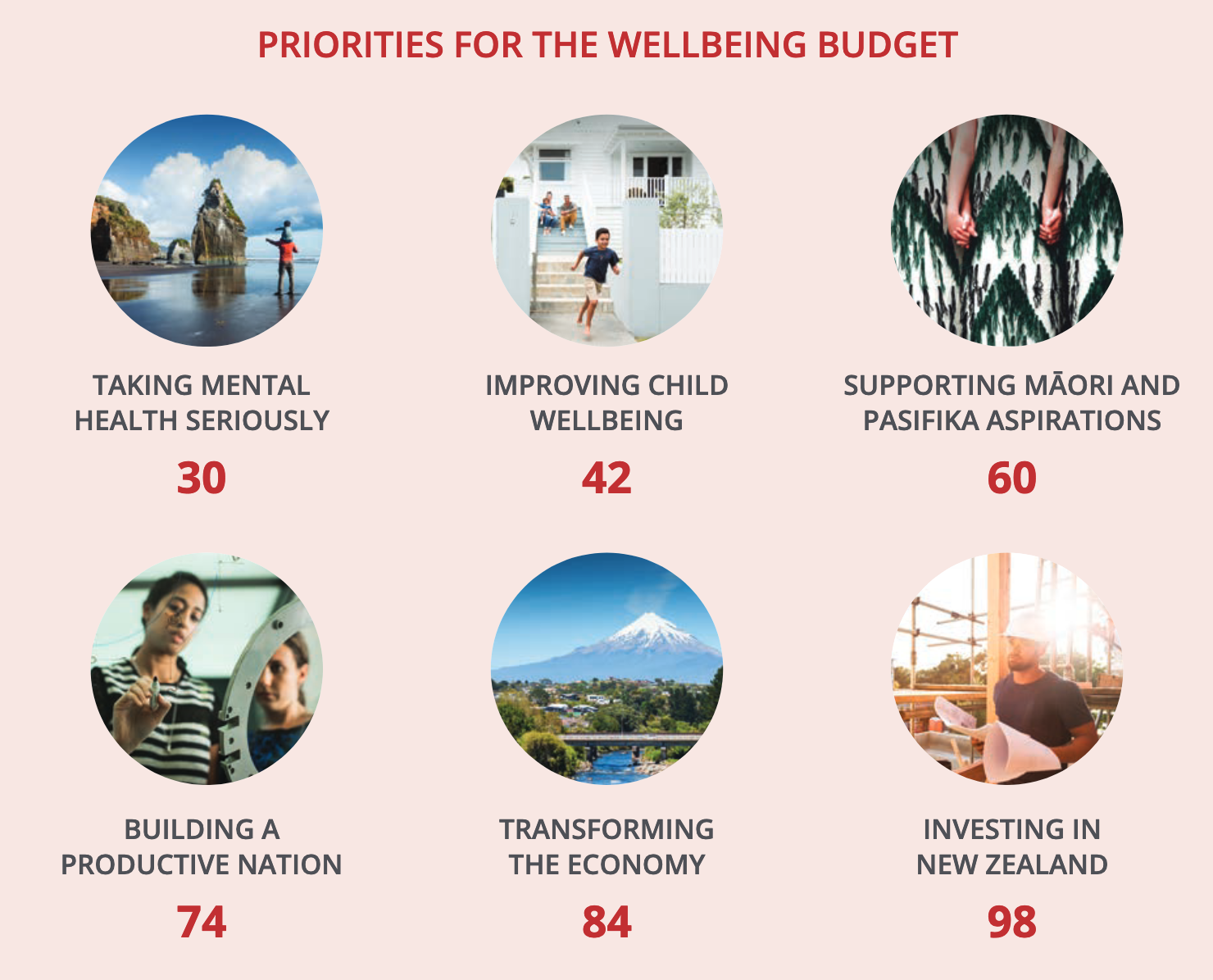 Wellbeing Budget 2019 Priorities of New Zealand